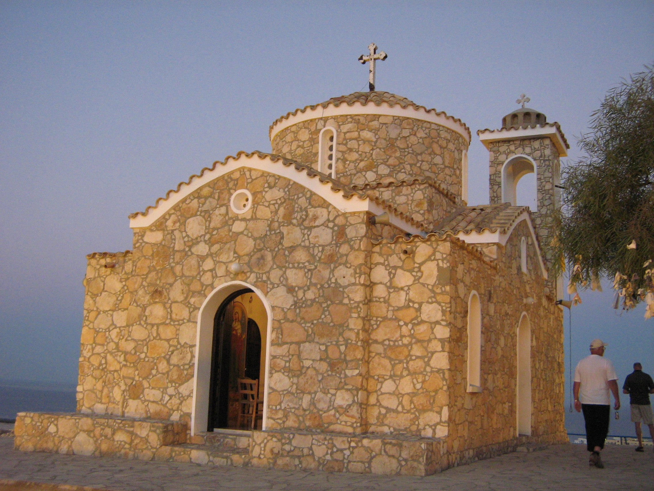 Church of Saint Elias in Protaras (Paralimni, Cyprus)